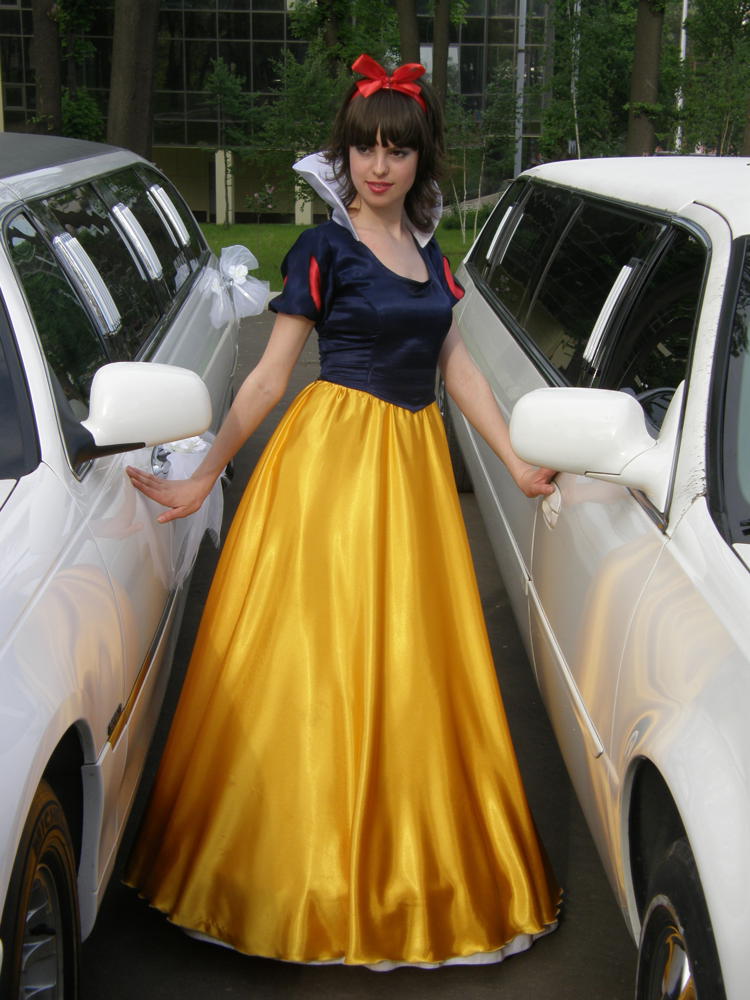 Brides parade in Donetsk, 2010